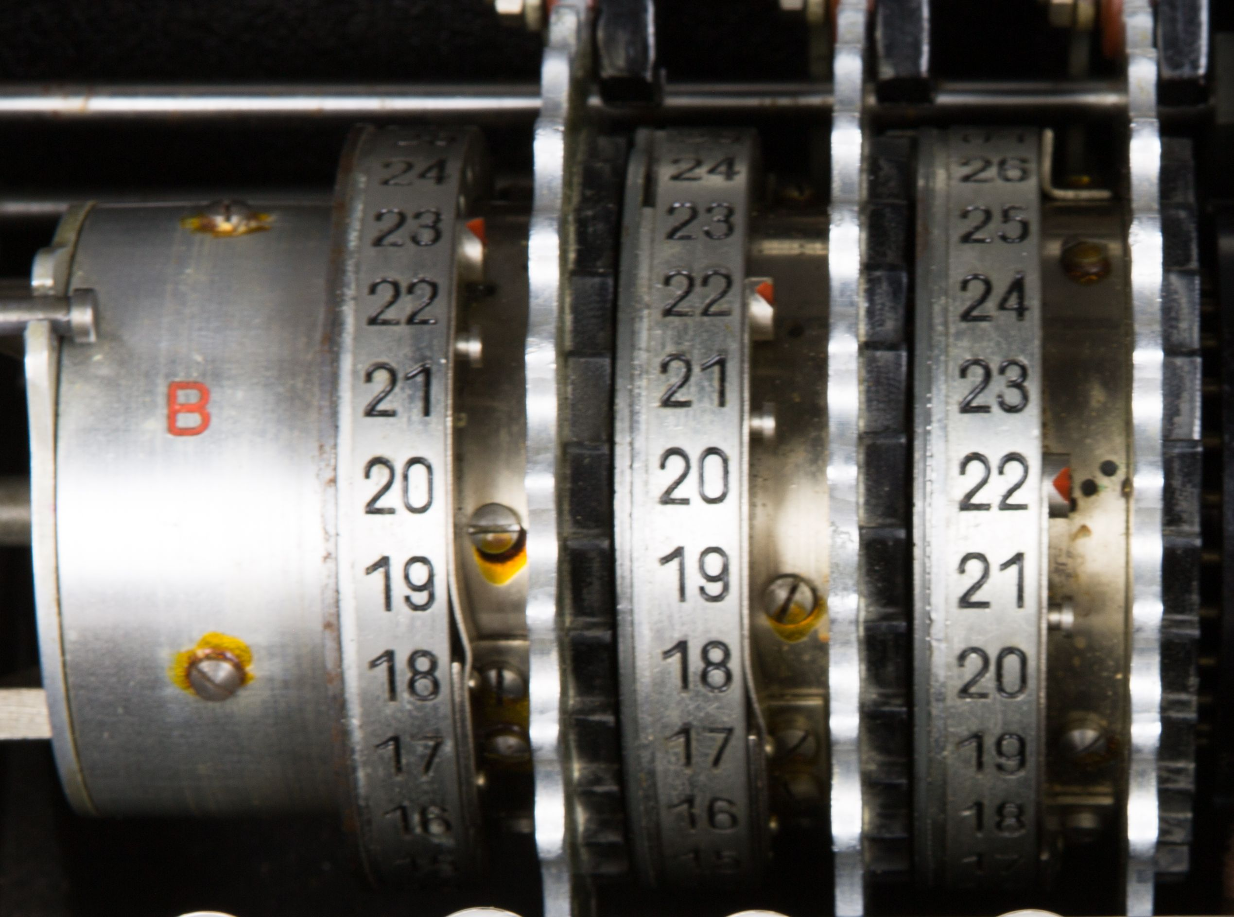 Wheel set of Enigma I with reflector B and three rotating wheels (crop of Enigma_07.jpg)